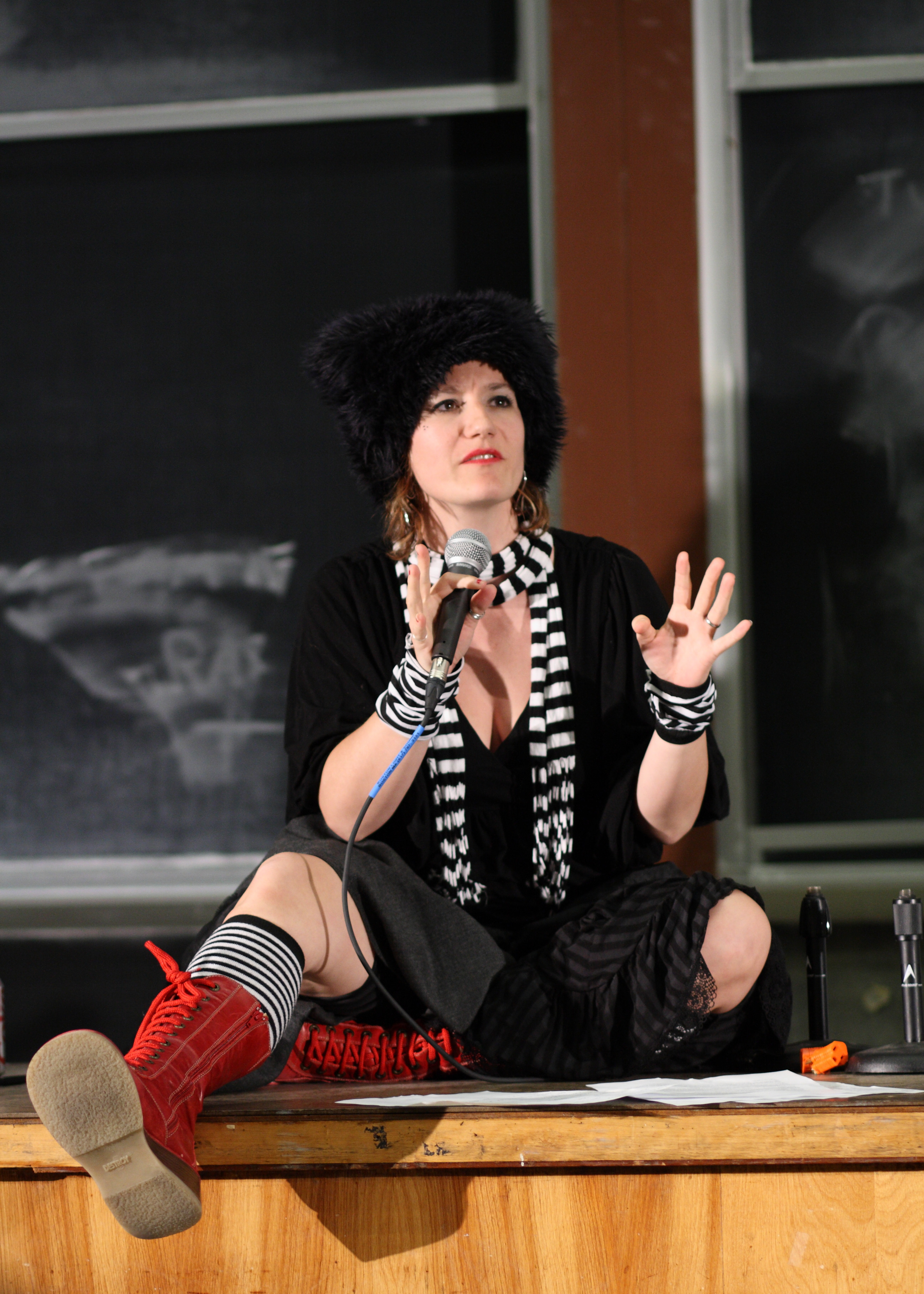 danah boyd during the opening keynote of ROFLCon II